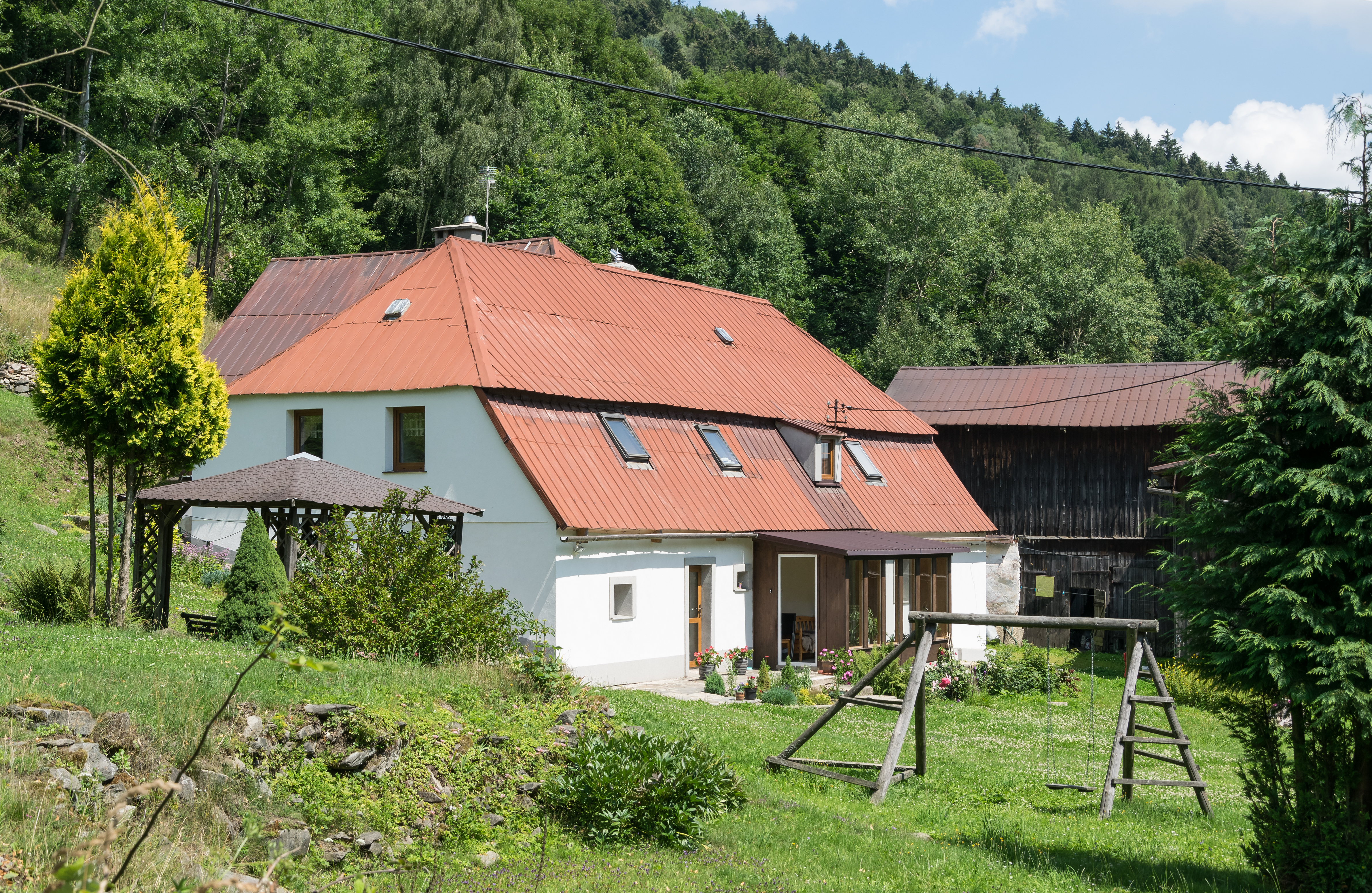 House No. 16 in Wójtowice